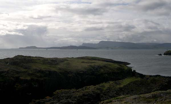 Fladda-Chuain Looking across the three miles of sea to Skye